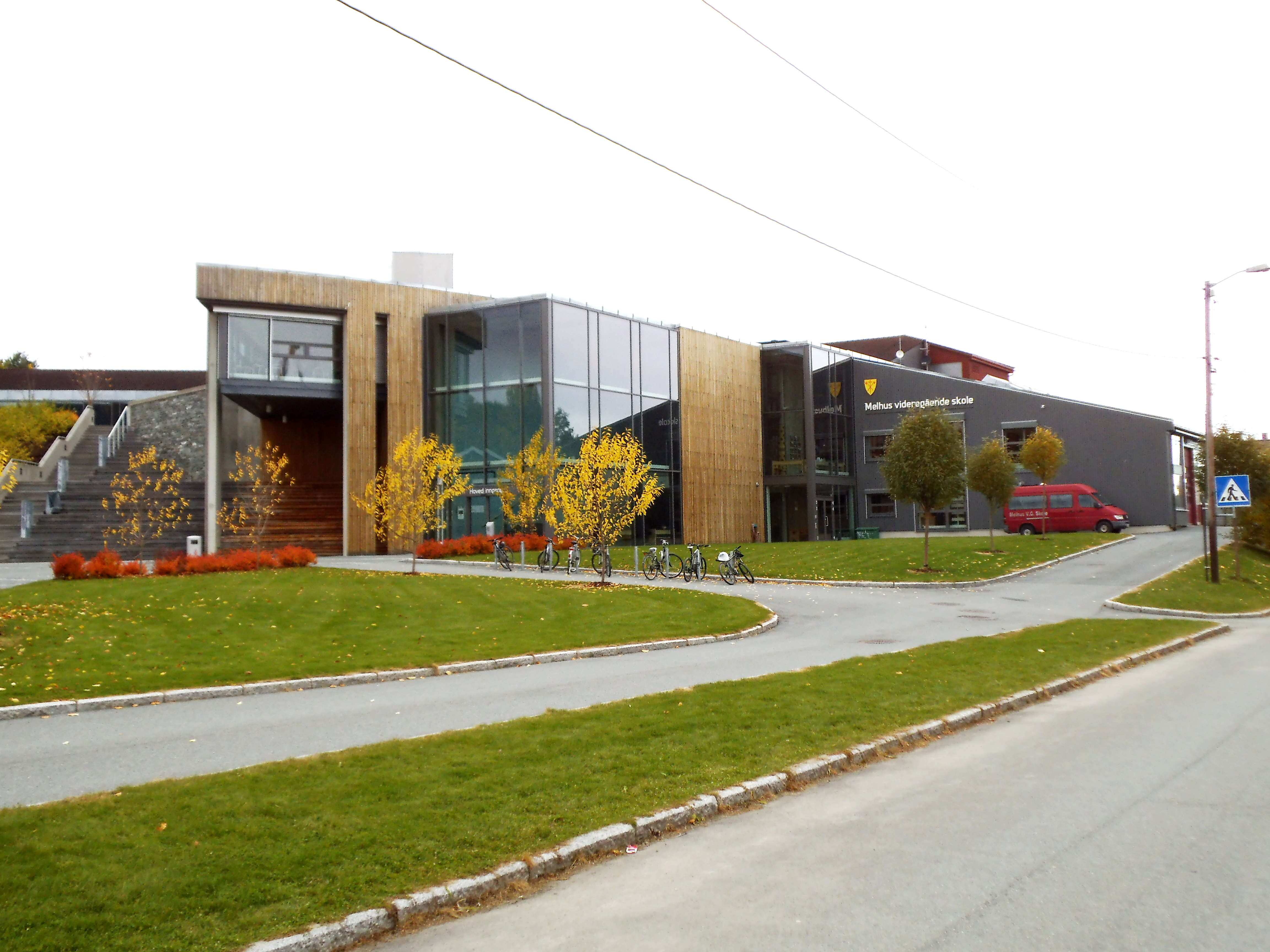 Melhus videregående skole (high school)